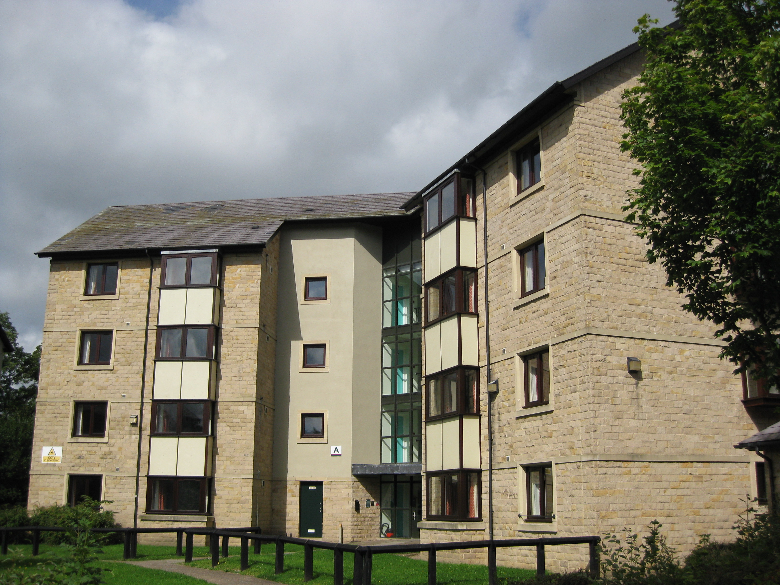 Student flats within the Oxley Hall grouping of the University of Leeds. Block A. Leeds LS16 8HL